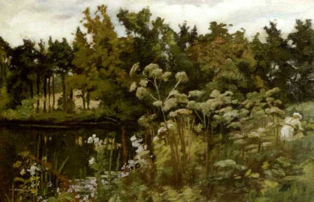 "Lady in shrubbery", oil on board, 12.4 x 18.7 in. / 31.5 x 47.5 cm.